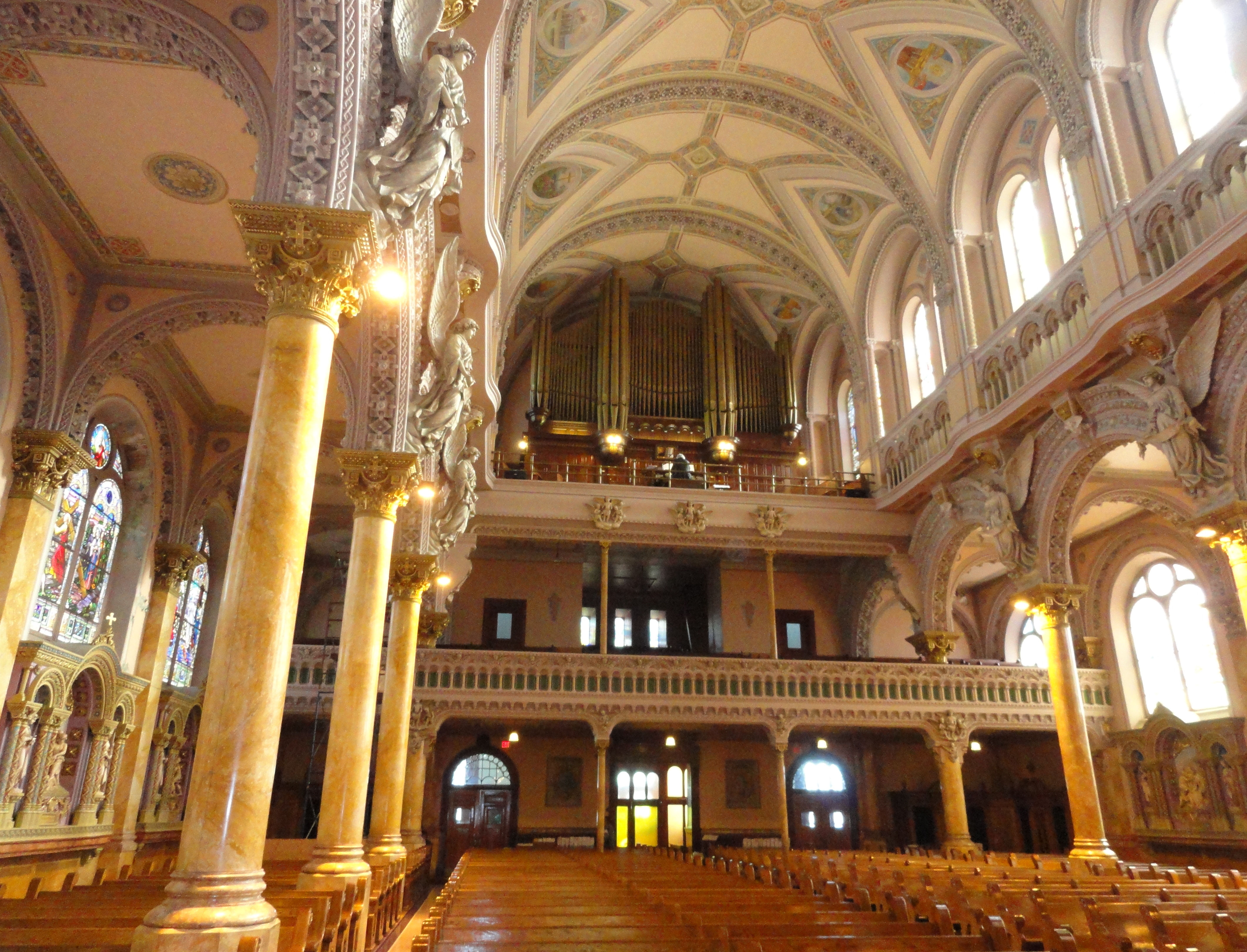 St. Anthony Church New Bedford MA Joseph Venne architect interior Casavant organ